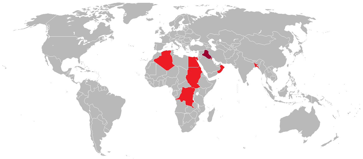 Map showing users of the Egyptian Fahd-240 APC, and/or it's variants